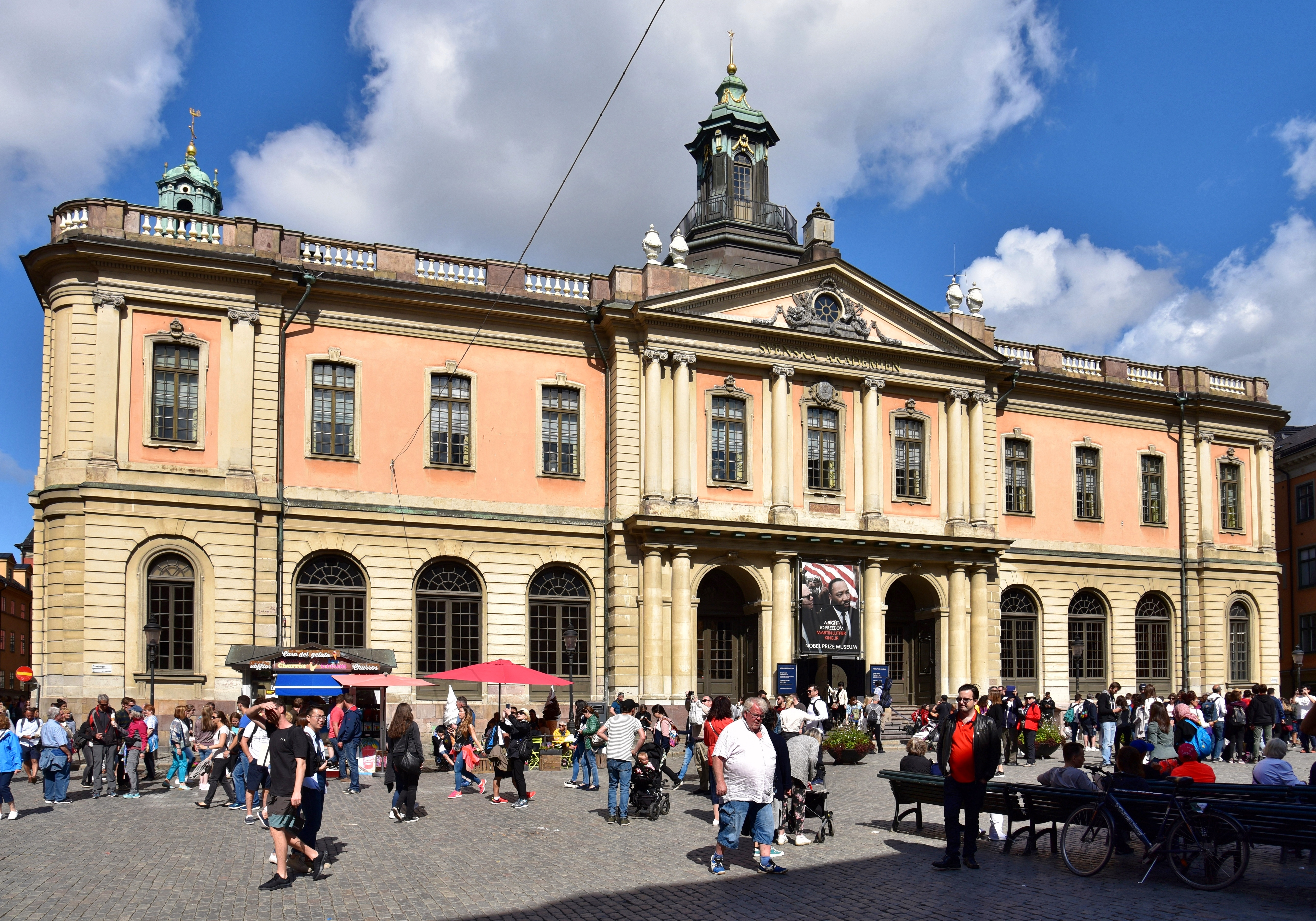 View of the Stockholm Stock Exchange Building (Börshuset), as at 2019 was housing the Nobel Prize Museum, in Gamla Stan, Stockholm, Sweden